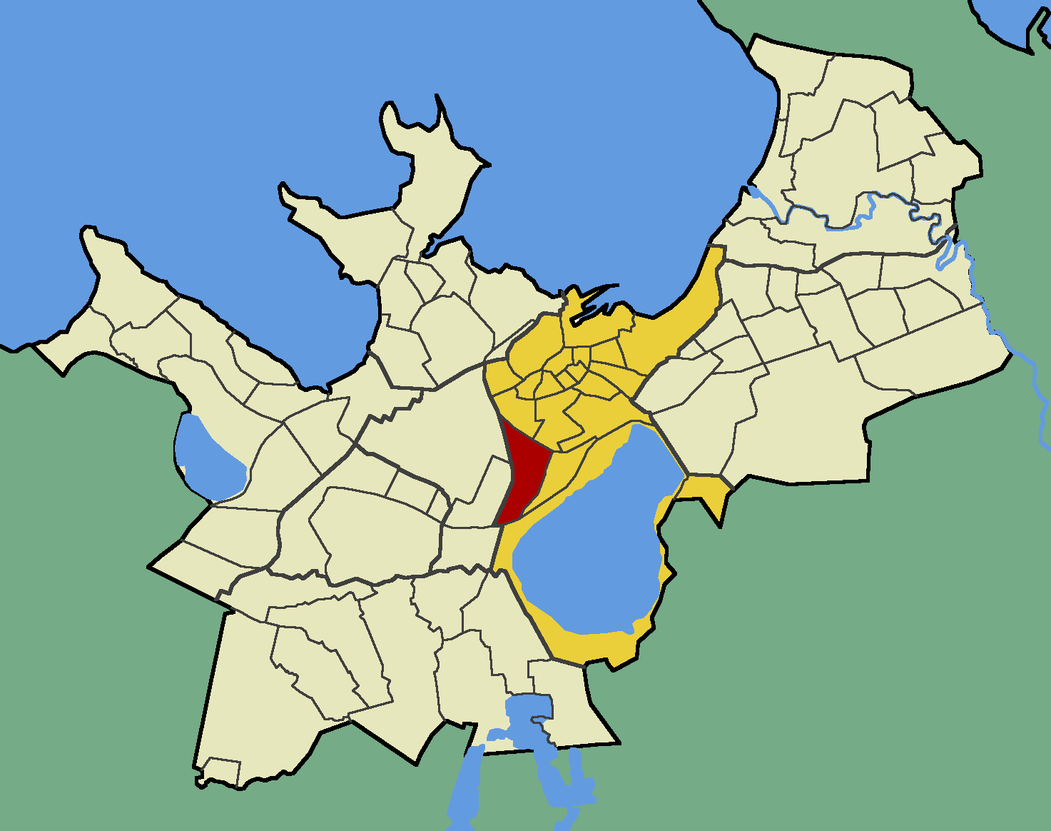 Map of Tallinn (Estonia) with borders of the quarters, Kesklinn district and Kitseküla quarter emphasised